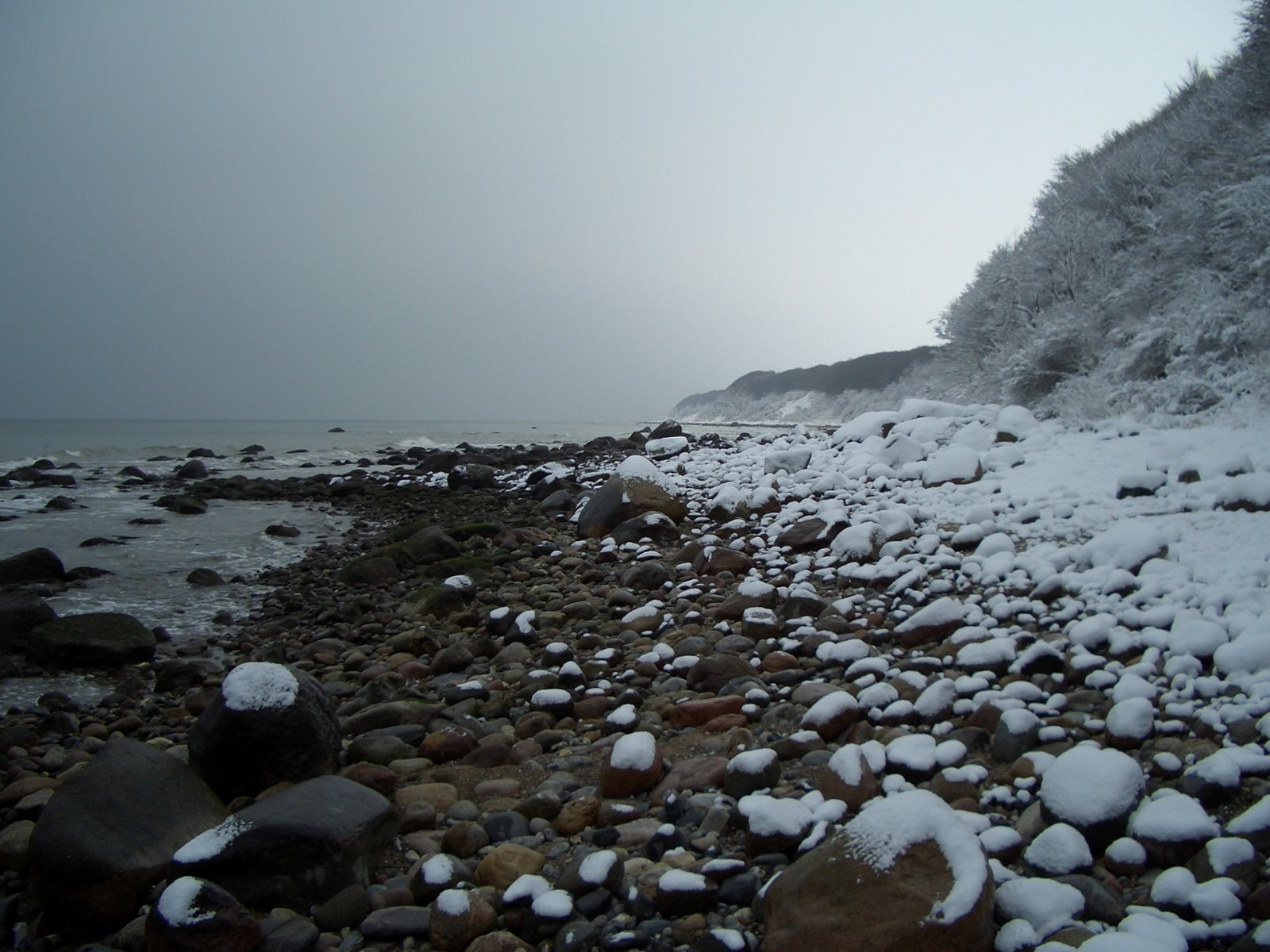 Coastline. Peninsula Wittow (Rügen), Germany.